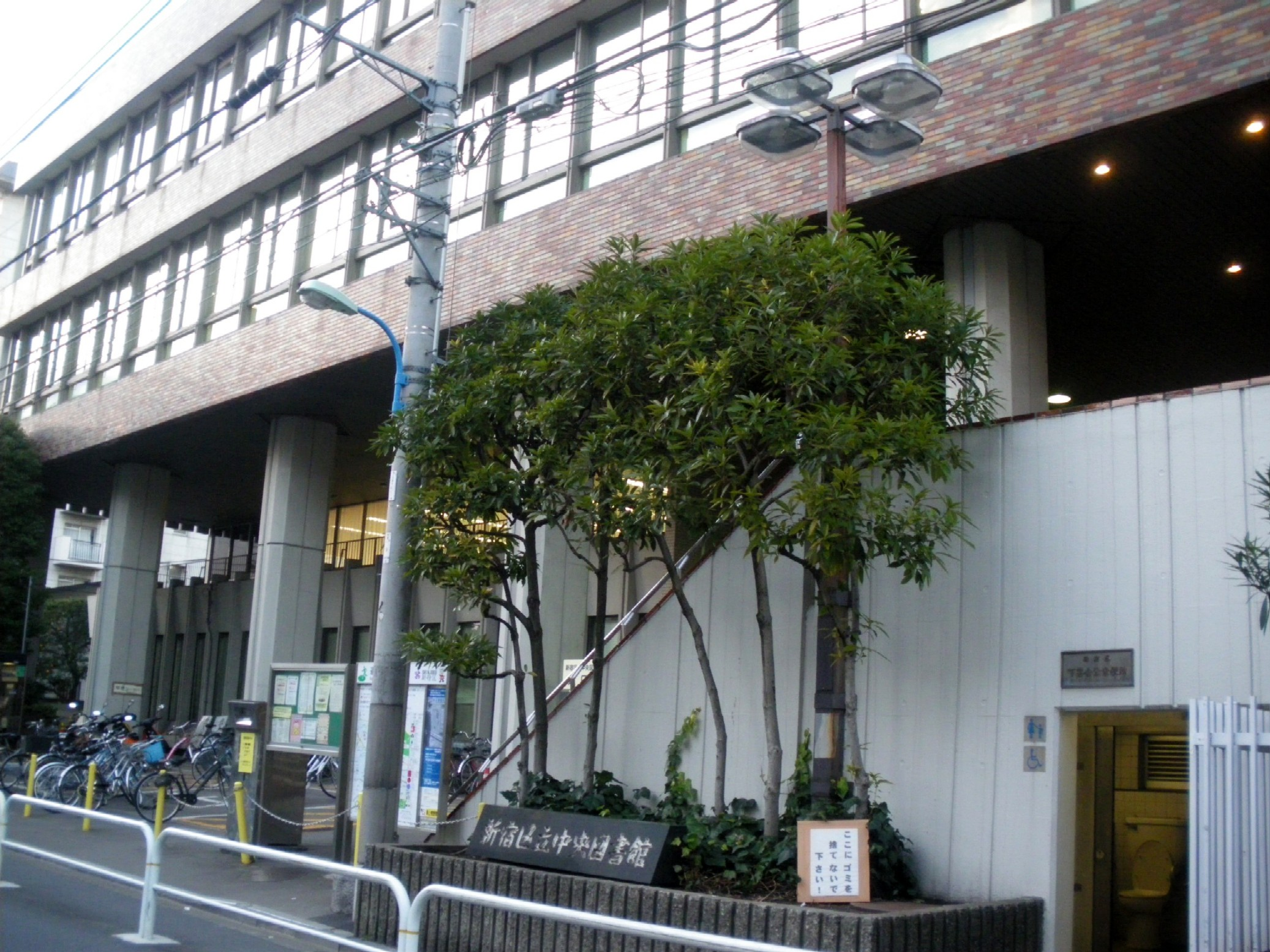 A photo of Shinjuku Central Library,Shimoochiai,Shinjuku-ku,Tokyo,Japan.